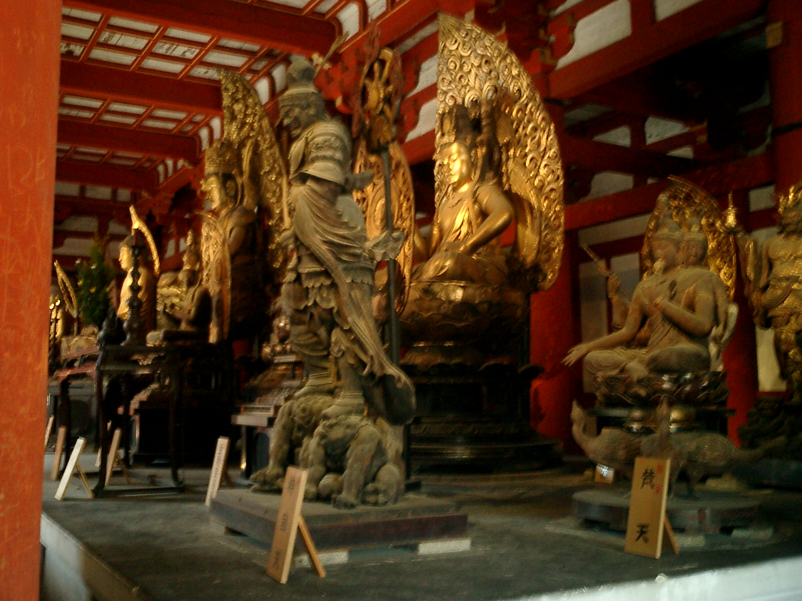 Kyoto, Japan